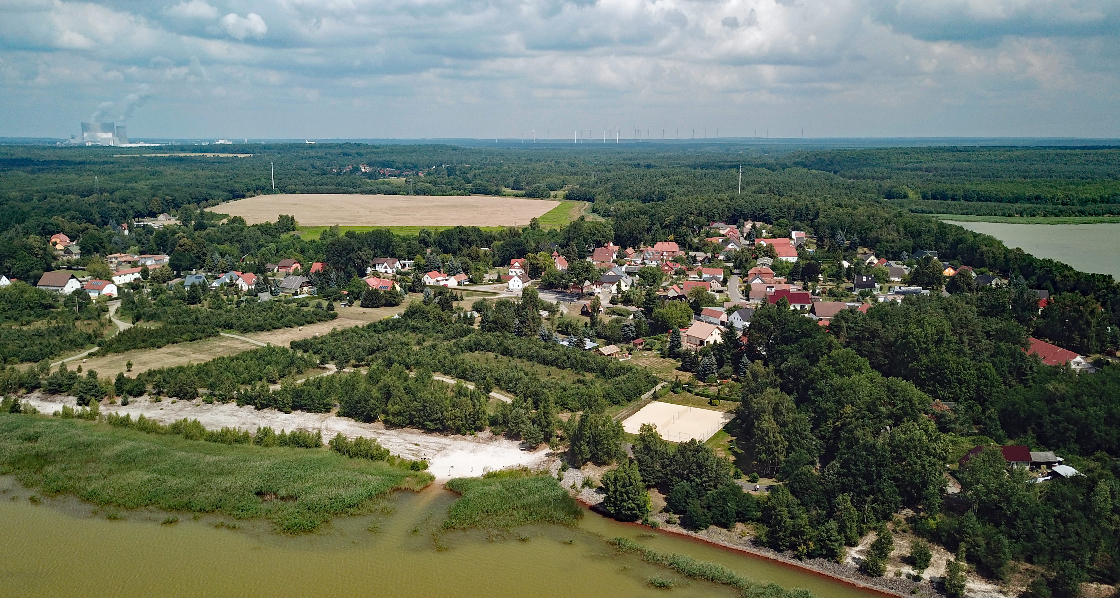 Burghammer (Spreetal, Saxony, Germany) Hornjoserbsce: Powětrowy wobraz Bórkhamora